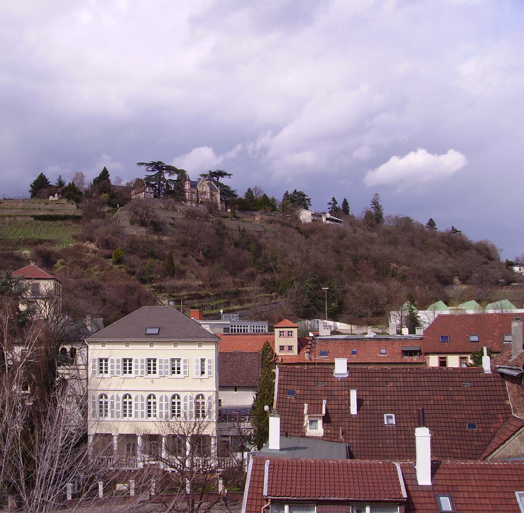 view of Neustadt an der Weinstraße, Germany